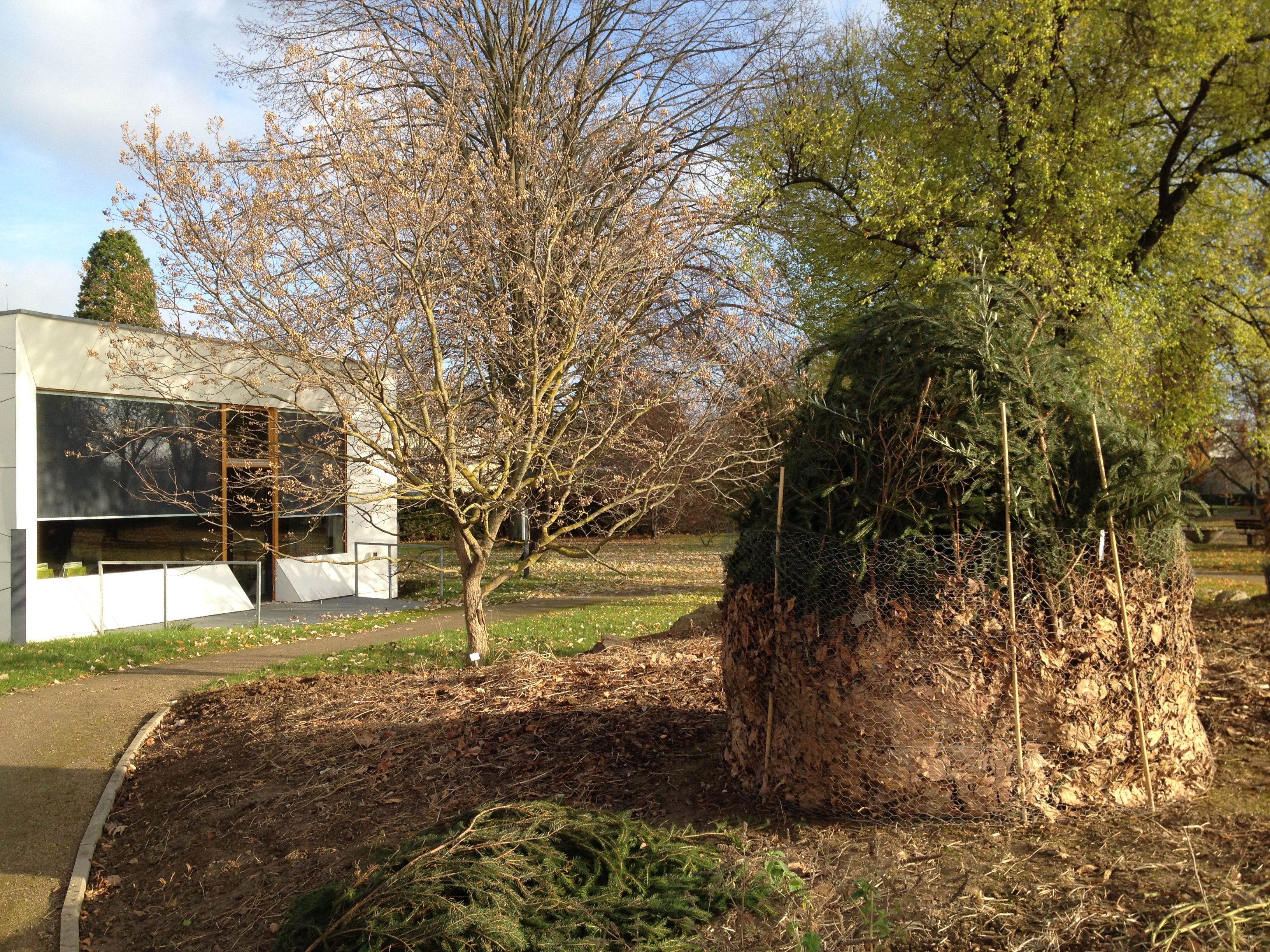 An olive tree has been prepared for winter. In the background the building of the "Grüne Schule" ("Green School")